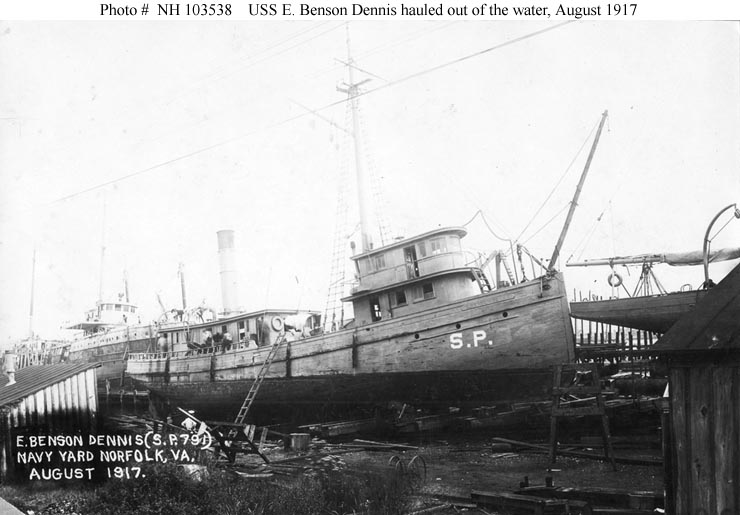 The United States Navy patrol vessel hauled out of the water at the Norfolk Navy Yard at Portsmouth, Virginia. Her bow bears traces of a different section patrol number (possibly "347") from the one she actually was assigned (791).